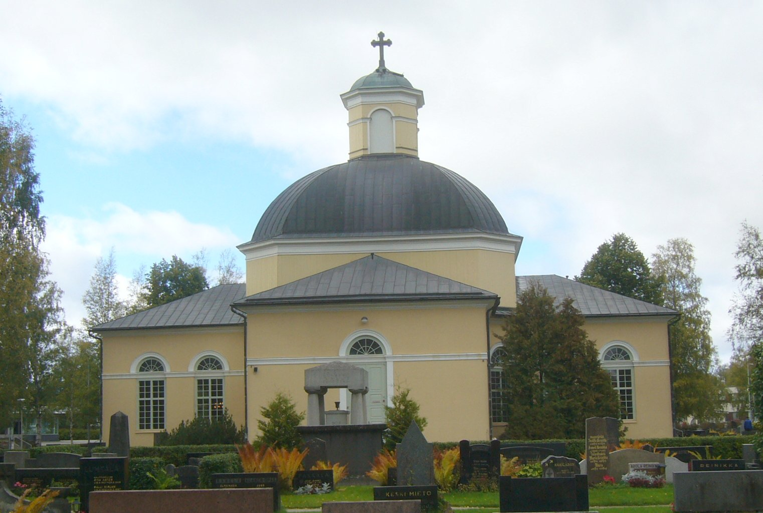 The church of Kurikka parish, Finland.